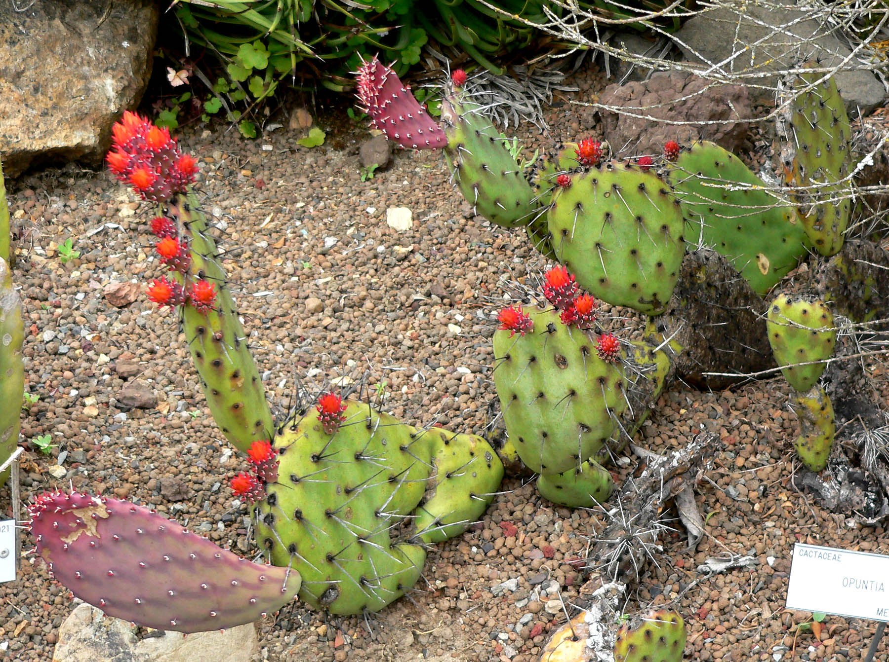 Photo of Opuntia riviereana at the University of California Botanical Garden